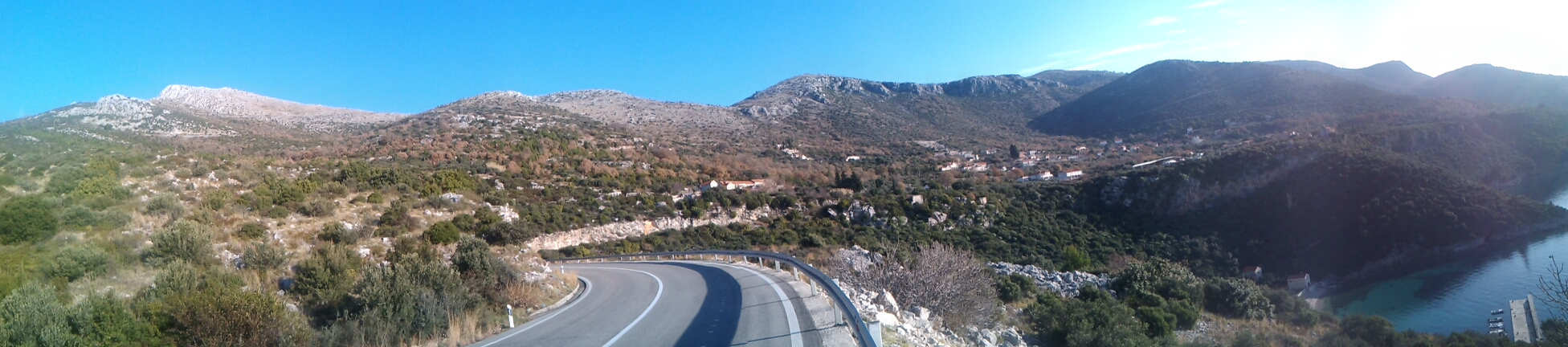 Panorama of Brsečine